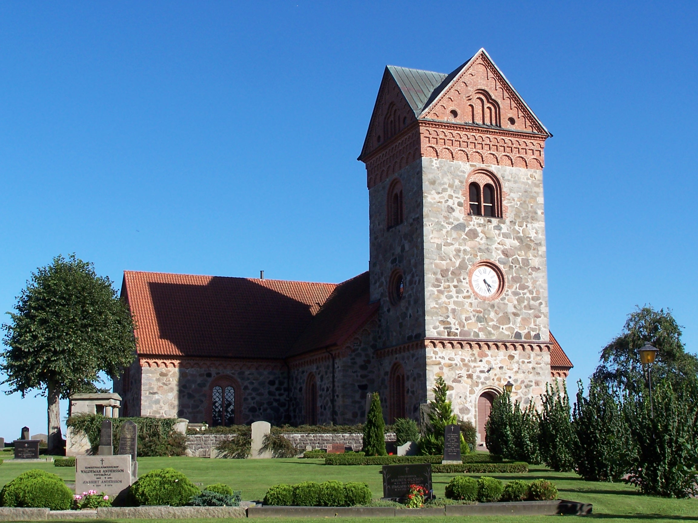 Torrlösa kyrka - Exterior.